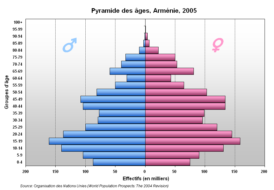 Armenia Population pyramid, 2005